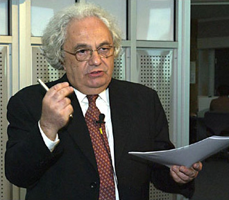 Basarab Nicolescu Sherbrooke